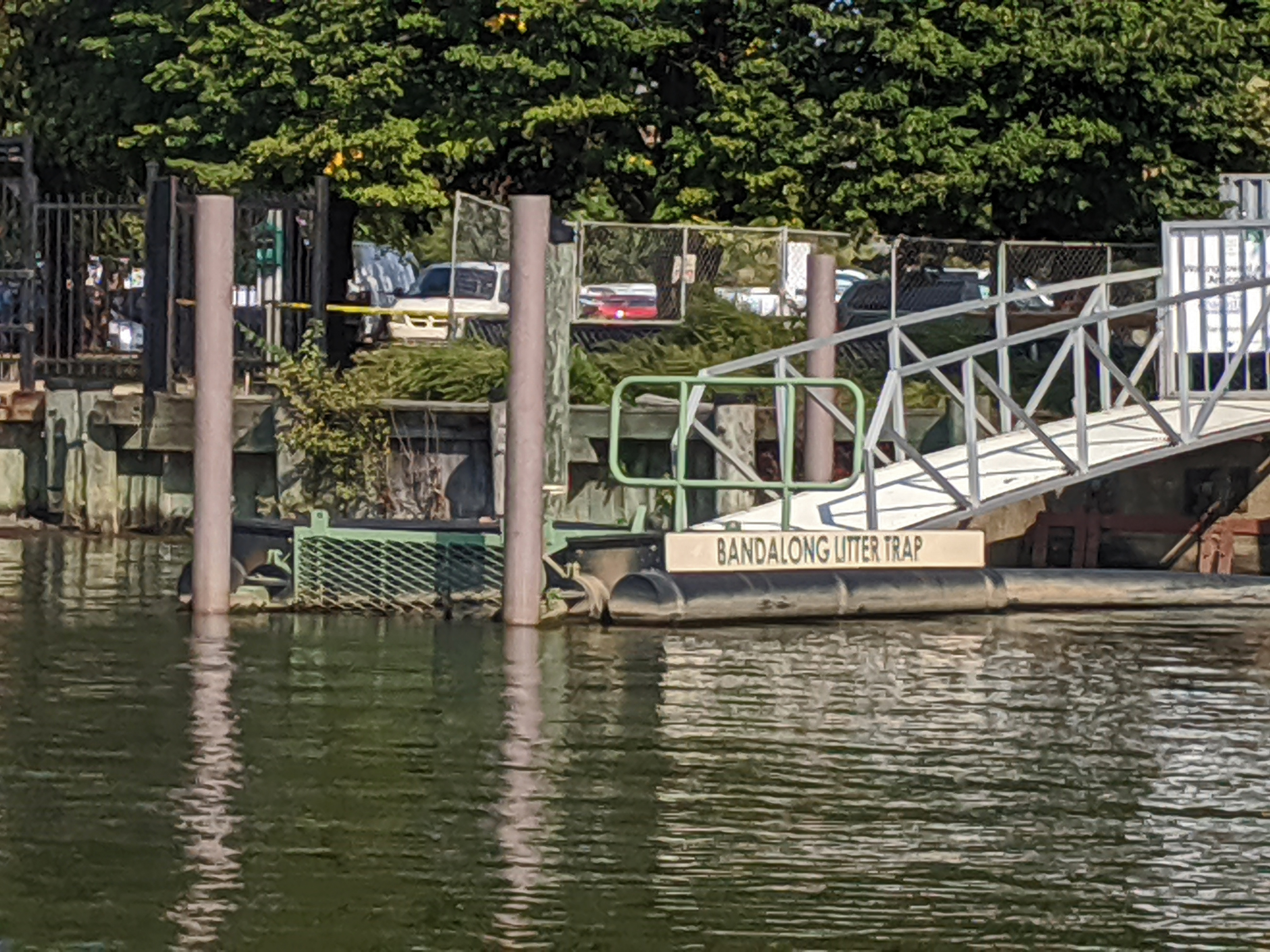 View of a Bandalong Litter Trap, moored on the bank of the Anacostia River in Washington, D.C.